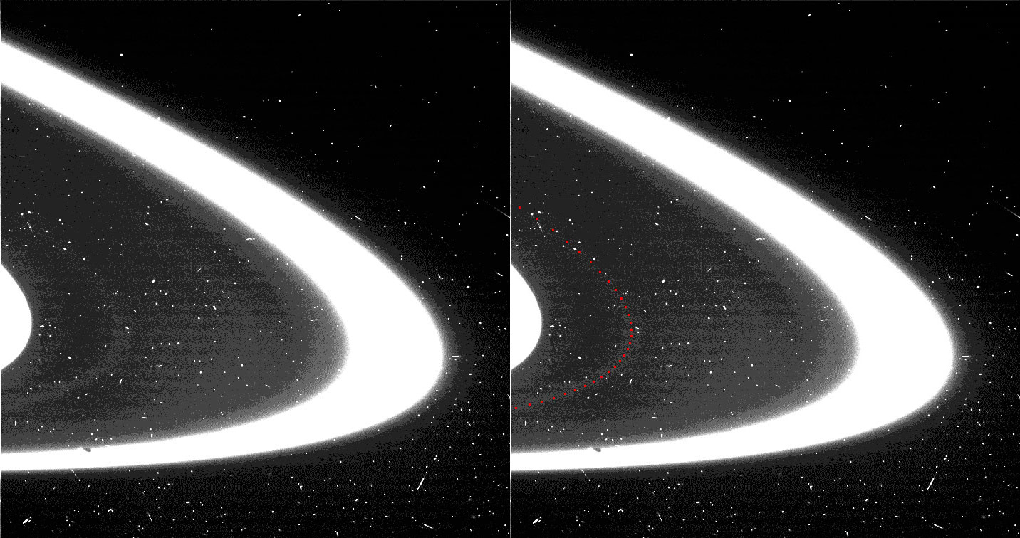 [A new ring of material, R/2004 S 1, in the orbit of Atlas has been seen in this view of the region between the edge of Saturn's A ring and the F ring taken by Cassini's wide angle camera on 1 July 2004 just after the spacecraft had crossed the ring plane following Saturn orbit insertion. The maximum radial resolution is approximately 7 km per pixel. The region from the A ring to the F ring spans some 3,500 km. The image has been enhanced to show the presence of faint ring material just beyond the edge of the A ring and in the orbit of Atlas (indicated by the red line in the image on the right). The moon Prometheus (86 kilometers, 53 miles across) can be seen close to the F ring at the lower left of the image]